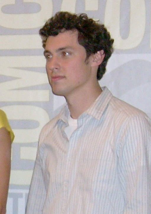 Tamara Taylor, David Boreanaz, Michaela Conlin, John Francis Daley